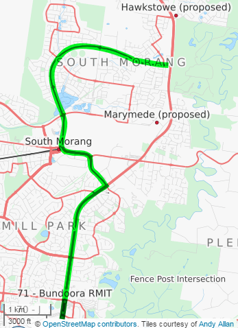 A map of the proposed extension to the Route 86 tram in Melbourne. Dark green (at the bottom) shows the current route, light green shows the proposed route, red shows bus routes. Created with OpenStreetMap and .